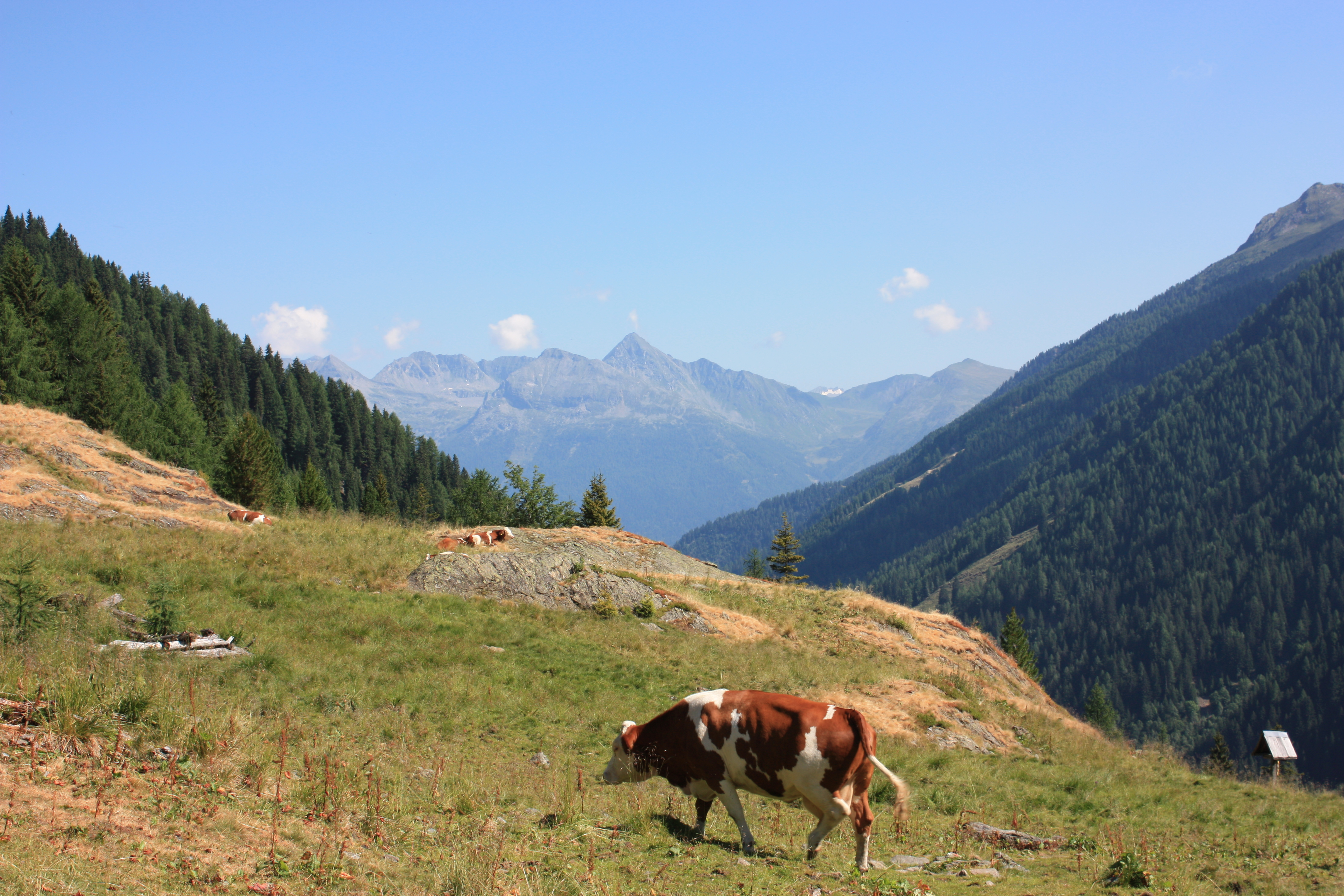 High pasture Locality: Obere Gößnitzer Hütten Community:Stall